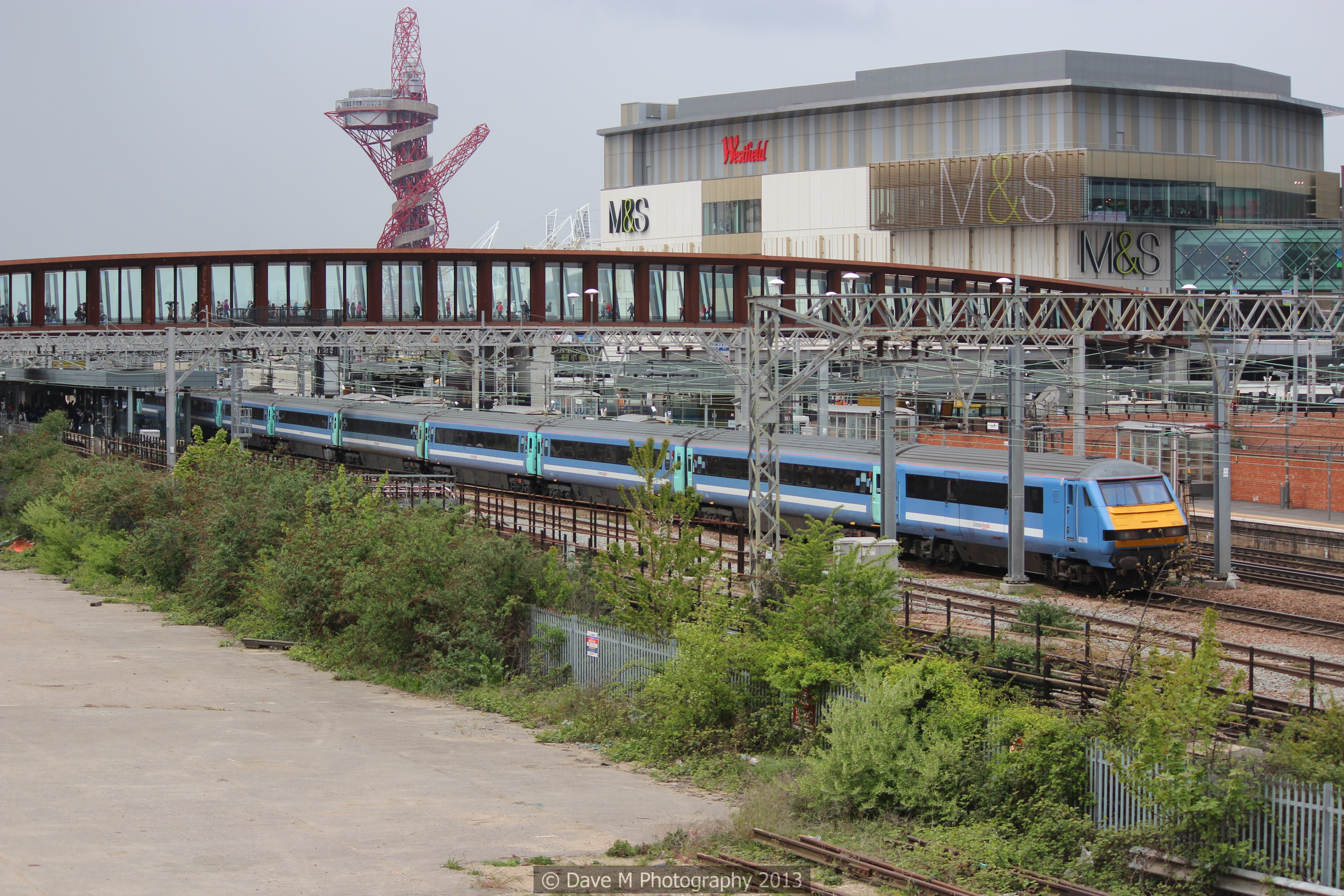 A Greater Anglia train passes Stratford station; Driving Van Trailer 82118 nearest the camera. In the background is Westfield shopping centre and the Olympic Park.